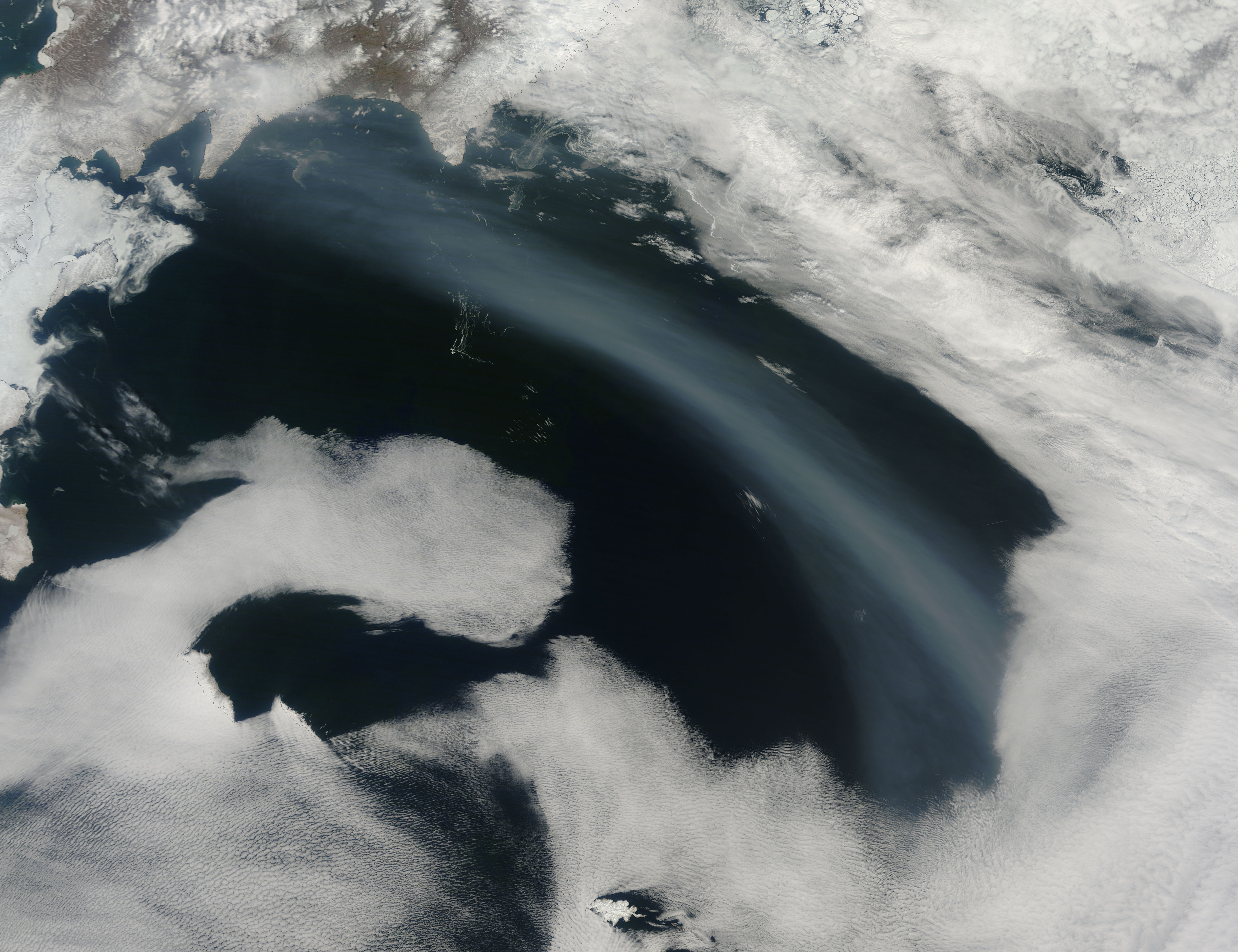 Smoke from Far Eastern Russia’s spring wildfires reached the Bering Sea by May 11, 2012. The Moderate Resolution Imaging Spectroradiometer aboard NASA’s Terra satellite passed over the region at 23:30 UTC on that same day and acquired this true-color image of a broad band of smoke stretching across the blue waters. In this image, the plume of smoke appears light gray while banks of cloud are bright white. Snow covers much of Kamchatka the land mass in the west. Karaginsky Island, just off Kamchatka’s eastern shore, is surrounded by sea ice. Clouds stream off the southwest shores of Beringa and Medny Islands. To the east, Attu Station, Alaska, is surrounded by cloud. In early May, numerous wildfires burned near Lake Baikal, in Siberia. These fires billowed heavy smoke across eastern Mongolia, China and Russia’s Far East. An image of the smoke and fires was captured on May 8 and appeared as the MODIS image of the day on May 11. That image can be viewed here: According to a model by the National Oceanic and Atmospheric Administration (NOAA), it is possible that smoke from the Lake Baikal region could take just a few days to reach the Bering Sea. Credit: NASA/GSFC/Jeff Schmaltz/MODIS Land Rapid Response Team NASA image use policy. NASA Goddard Space Flight Center enables NASA’s mission through four scientific endeavors: Earth Science, Heliophysics, Solar System Exploration, and Astrophysics. Goddard plays a leading role in NASA’s accomplishments by contributing compelling scientific knowledge to advance the Agency’s mission. Follow us on Twitter Like us on Facebook Find us on Instagram